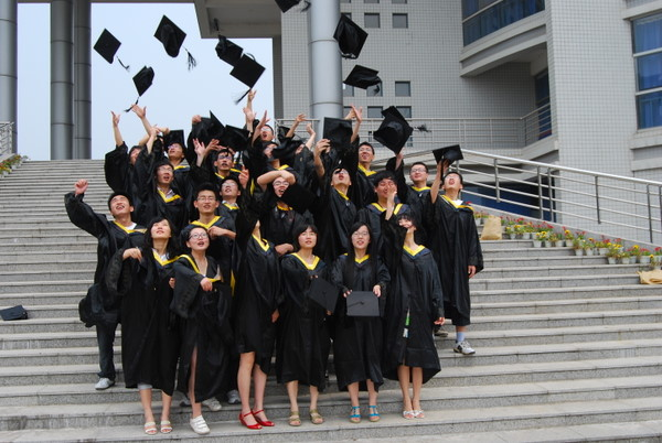 nupt is (Nanjing University of Posts and Telecommunications) -- tossing graduation caps in air.